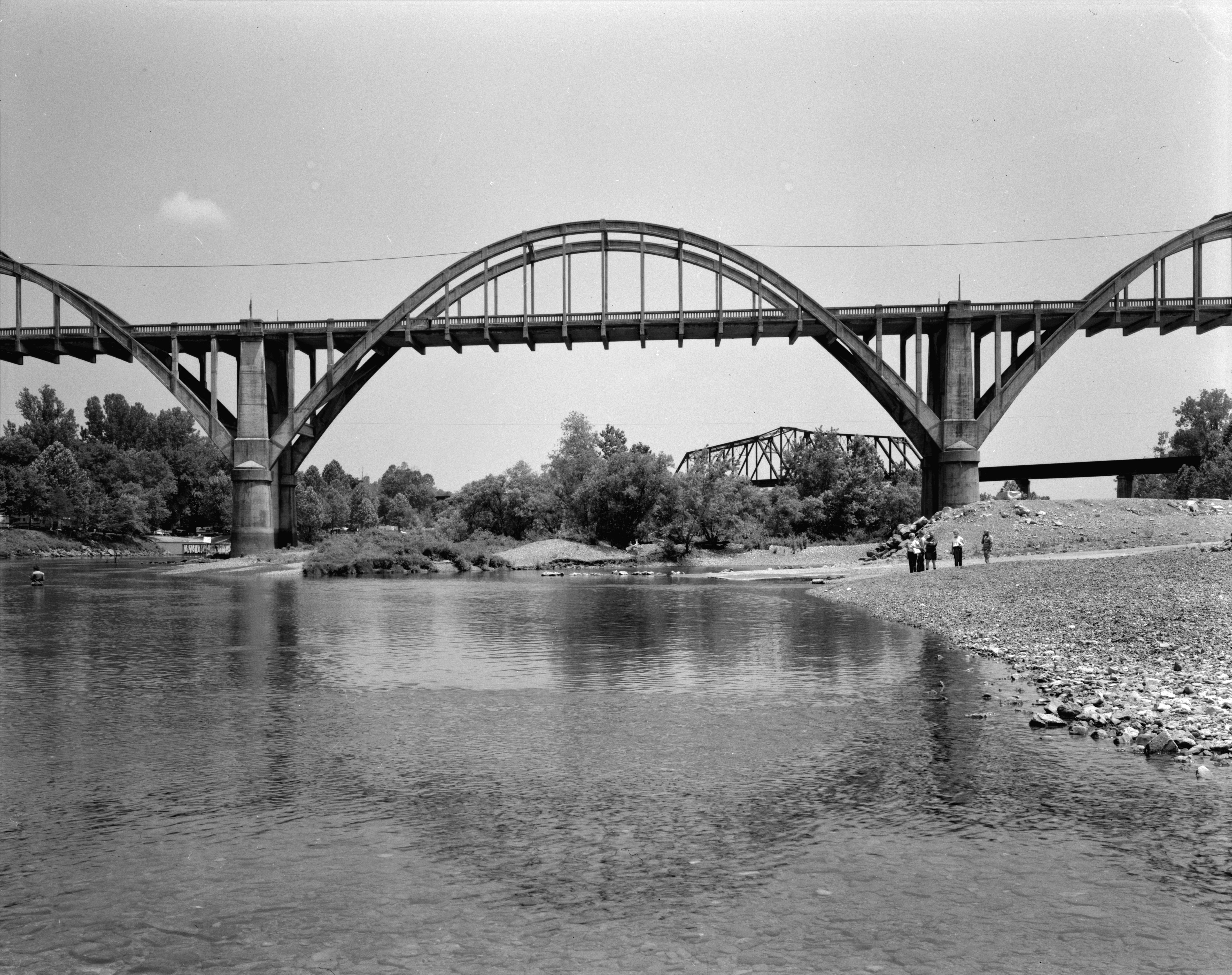 Cotter Bridge, Spanning White River at U.S. Highway 62, Cotter, Baxter County, AR. View of center span of bridge from riverbed, looking southwest.